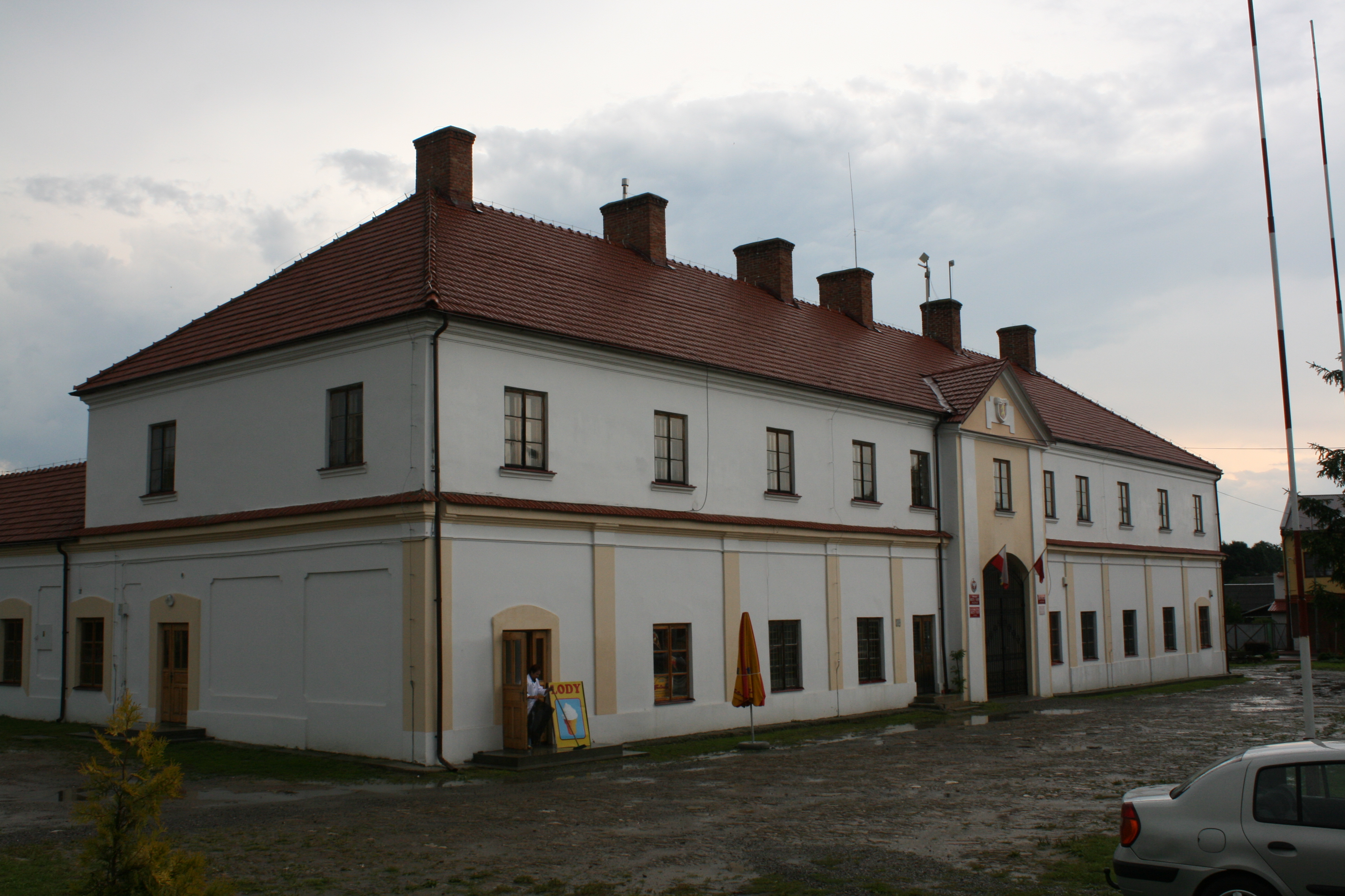 Town hall in Oleszyce, Poland